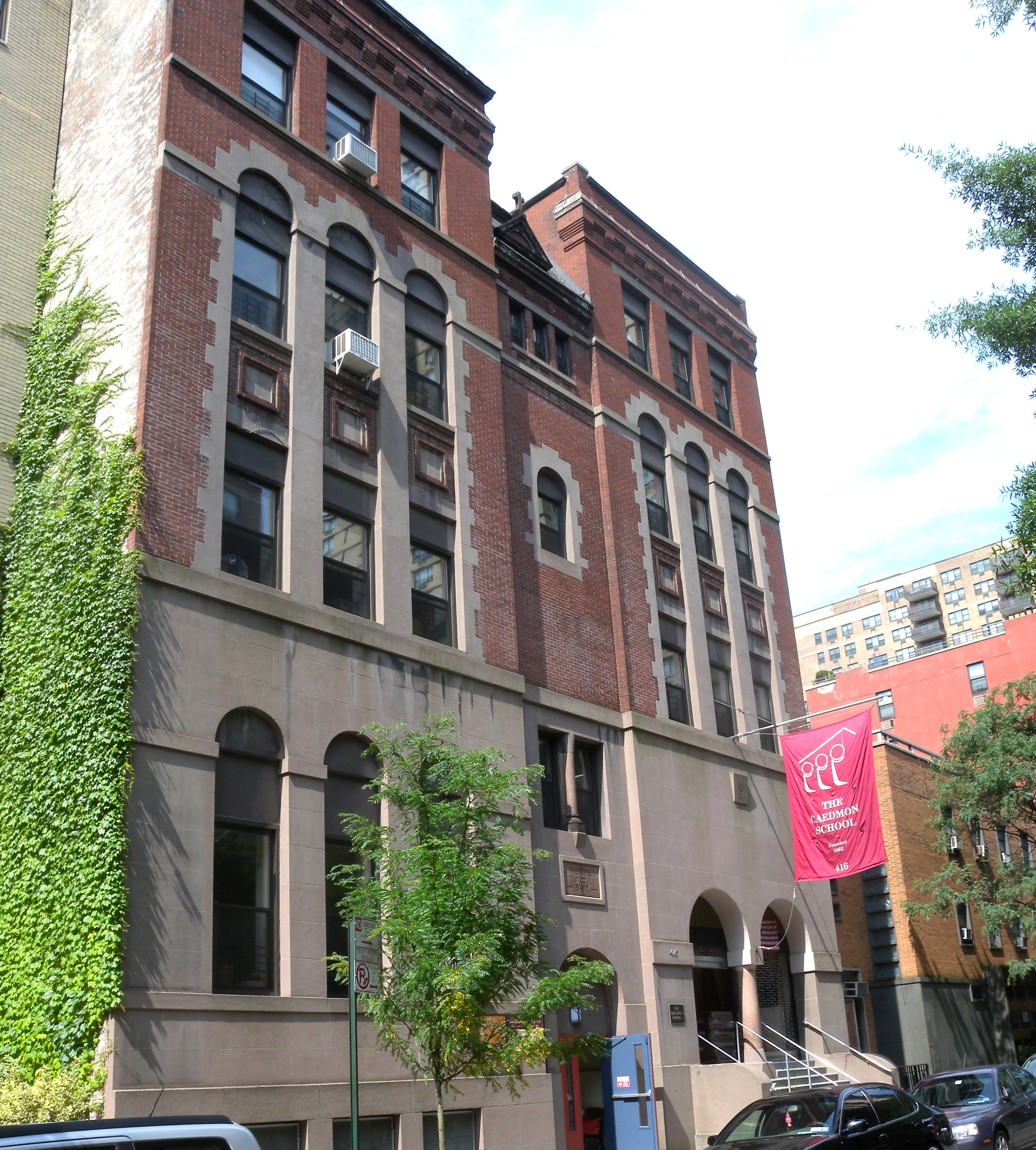 Looking west across 80th Street on a mostly sunny morning.